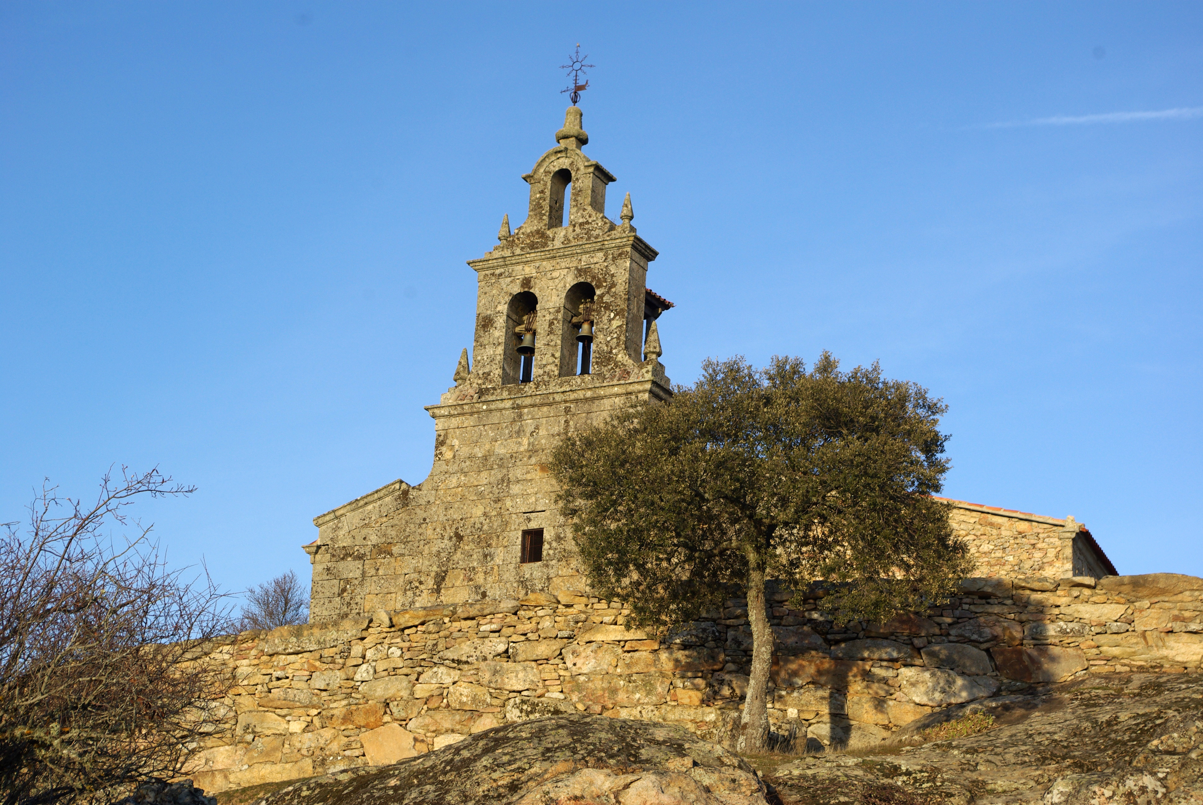 Our Lady of Castle hermitage, Fariza (Zamora, Spain)